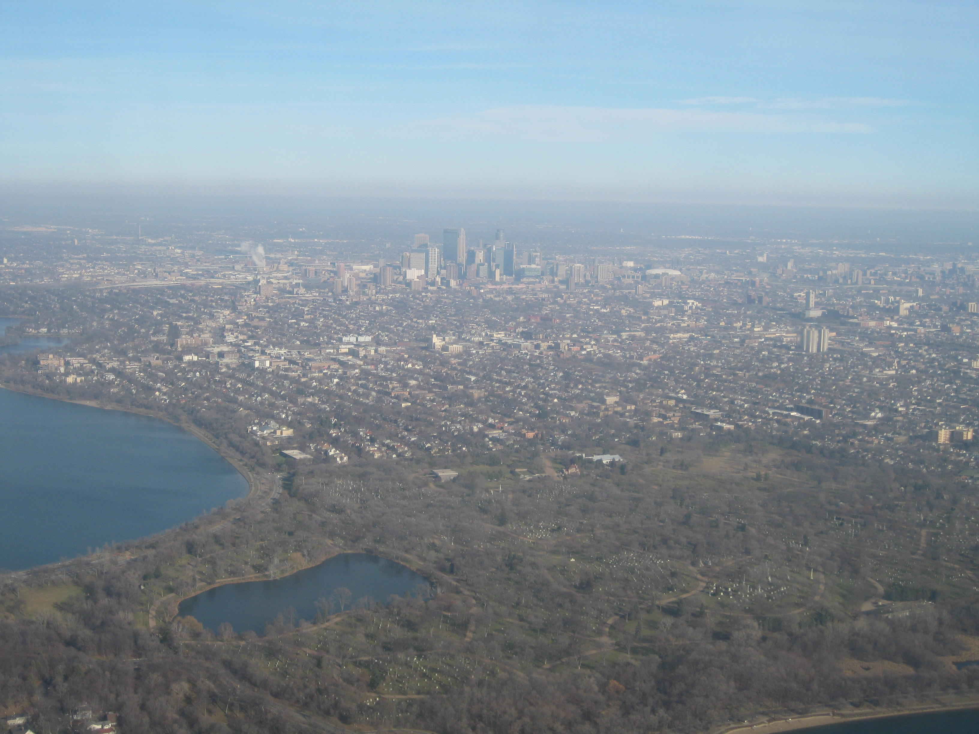 A photo of Minneapolis from the west taken from a plane descending into Minneapolis-St. Paul International Airport.